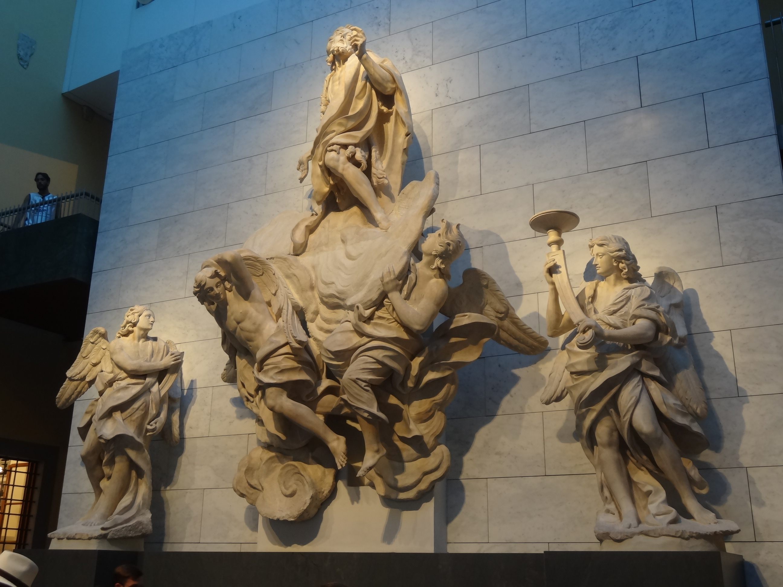 Museo dell'Opera del Duomo (Florence)